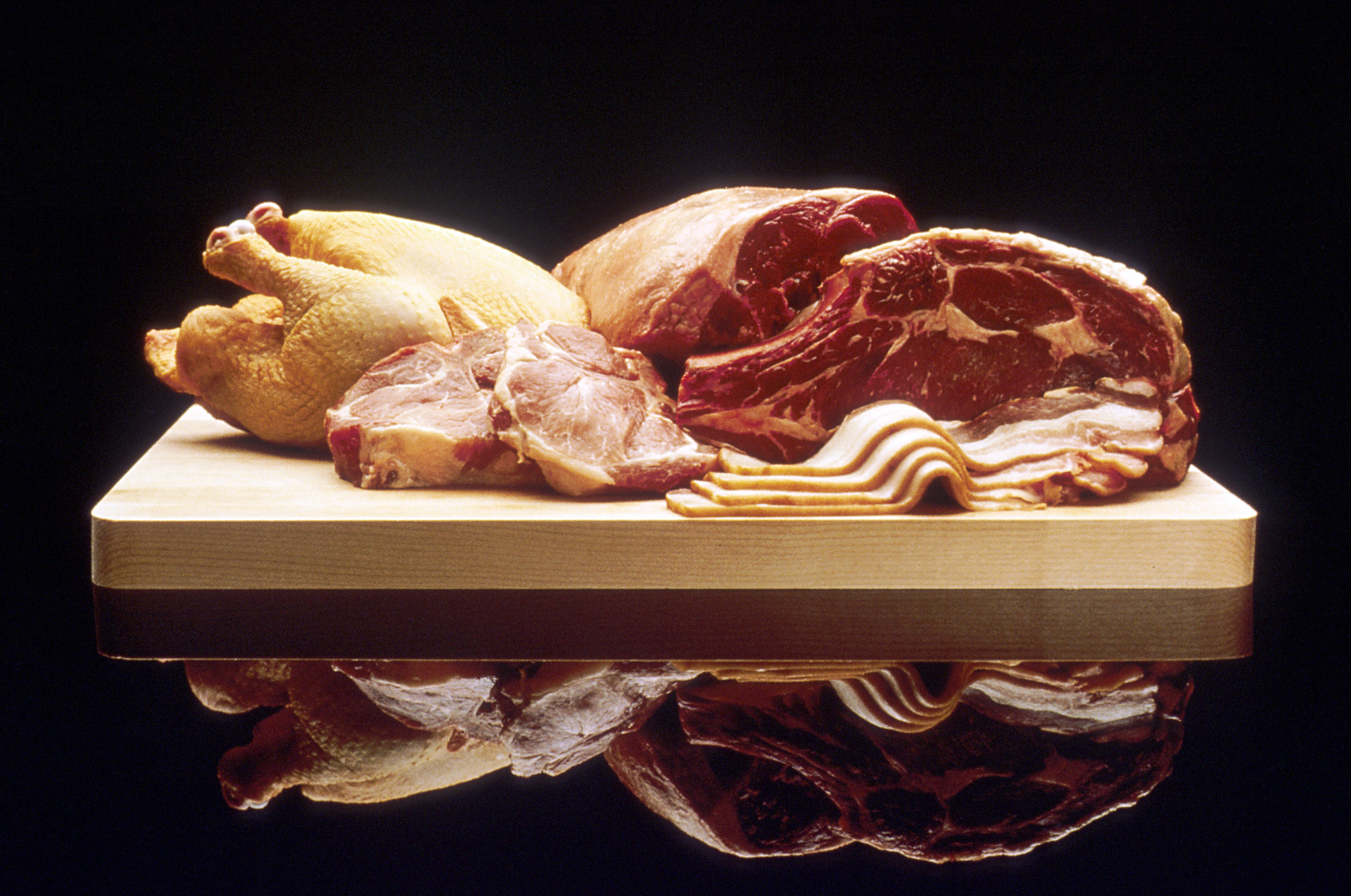 Display of red meat and poultry on a cutting board.